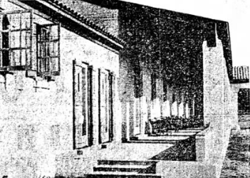 The is a picture of the Veranda on the front of the original Phoenix Country Club clubhouse facing southwest in 1921.